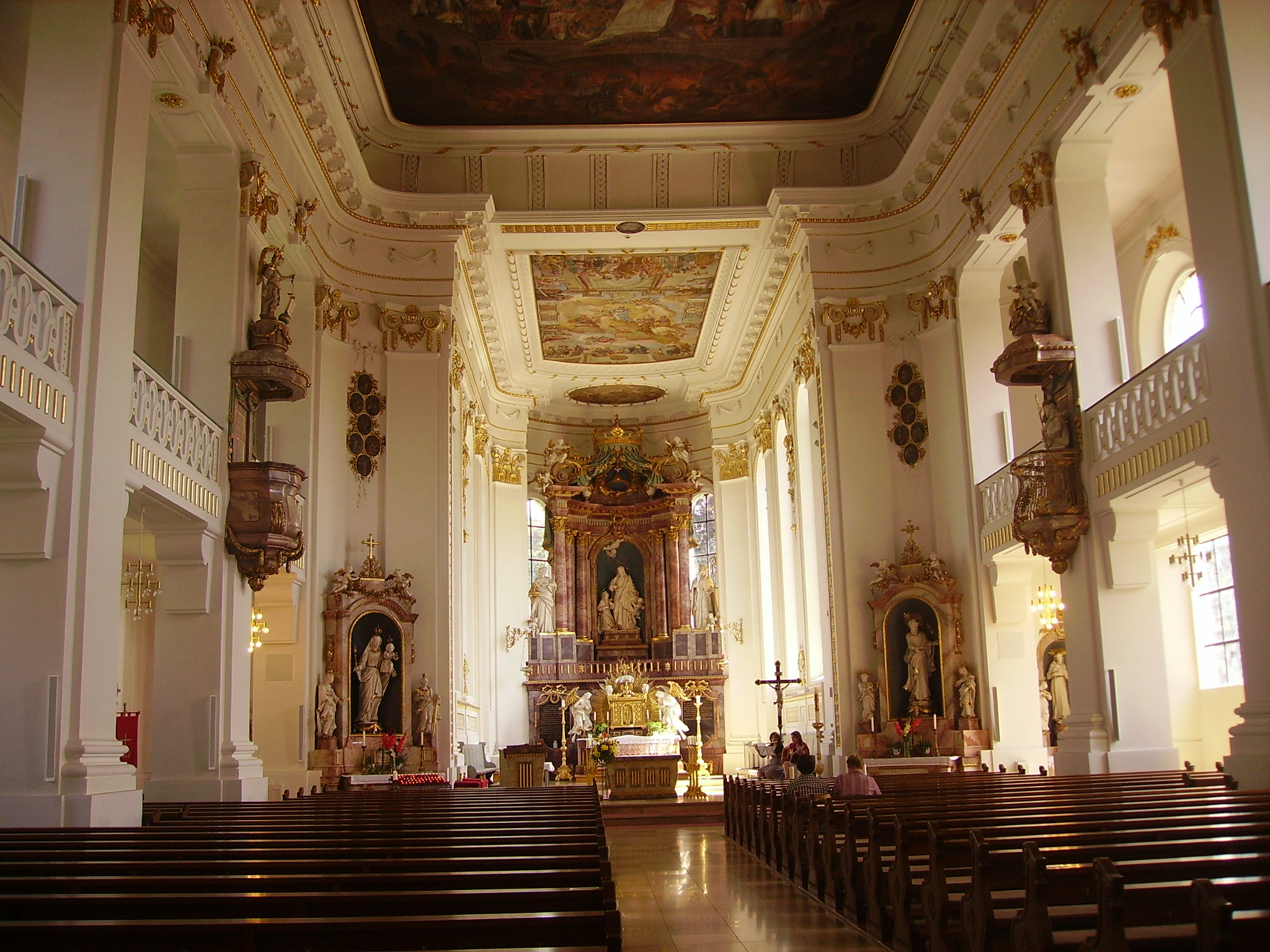 Nave of the catholic church St. Verena, Bad Wurzach